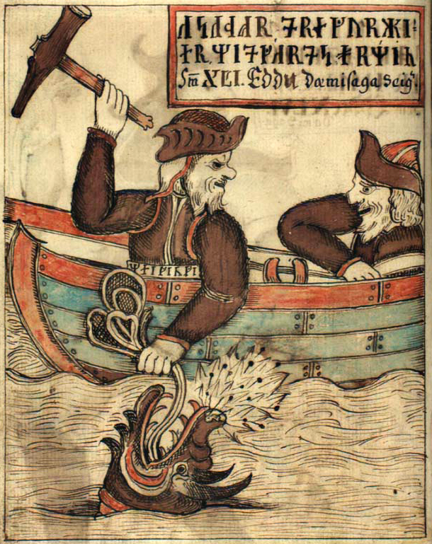 An illustration of the god Thor and the jötunn Hymir on the sea, where Thor gets Jörmungandr on the hook; from an Icelandic 18th century manuscript.